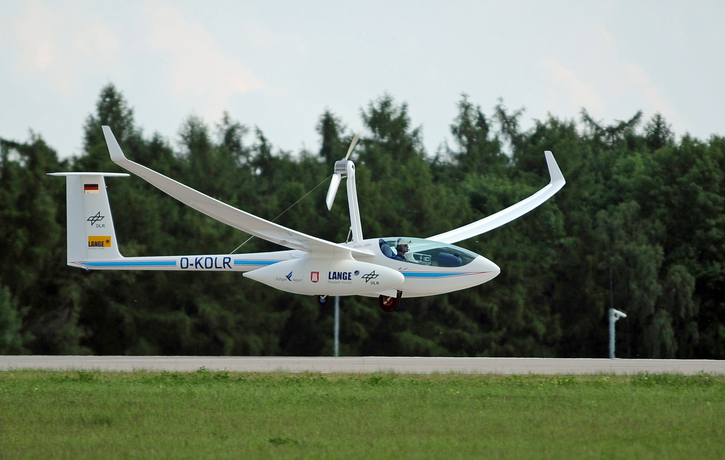 Fuel cell powered Antares 20E.